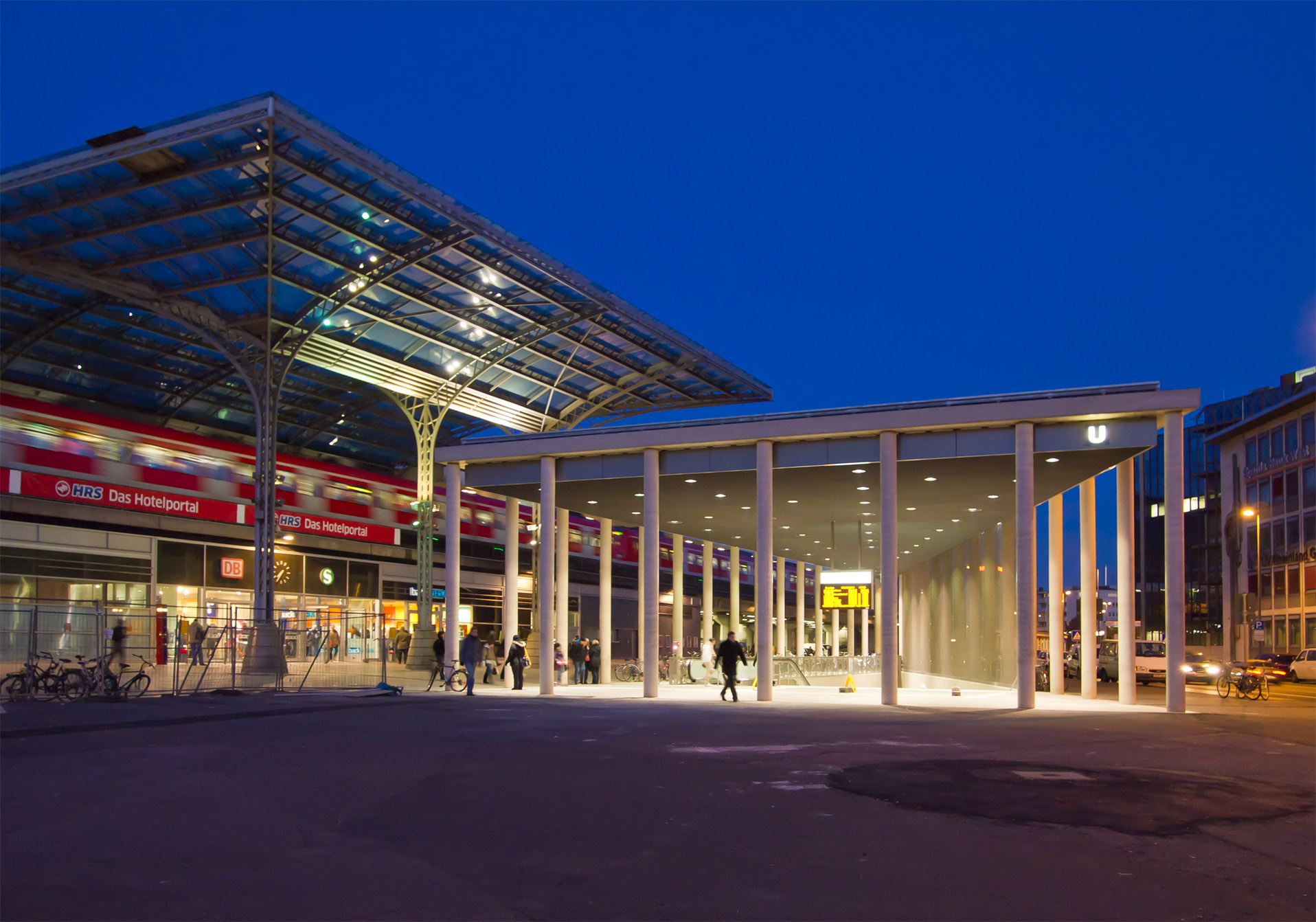 Subway station (U-Bahn / Stadtbahn) Hbf/Breslauer Platz and right there is a S-Bahn train on the Cologne central station (Hauptbahnhof), Germany